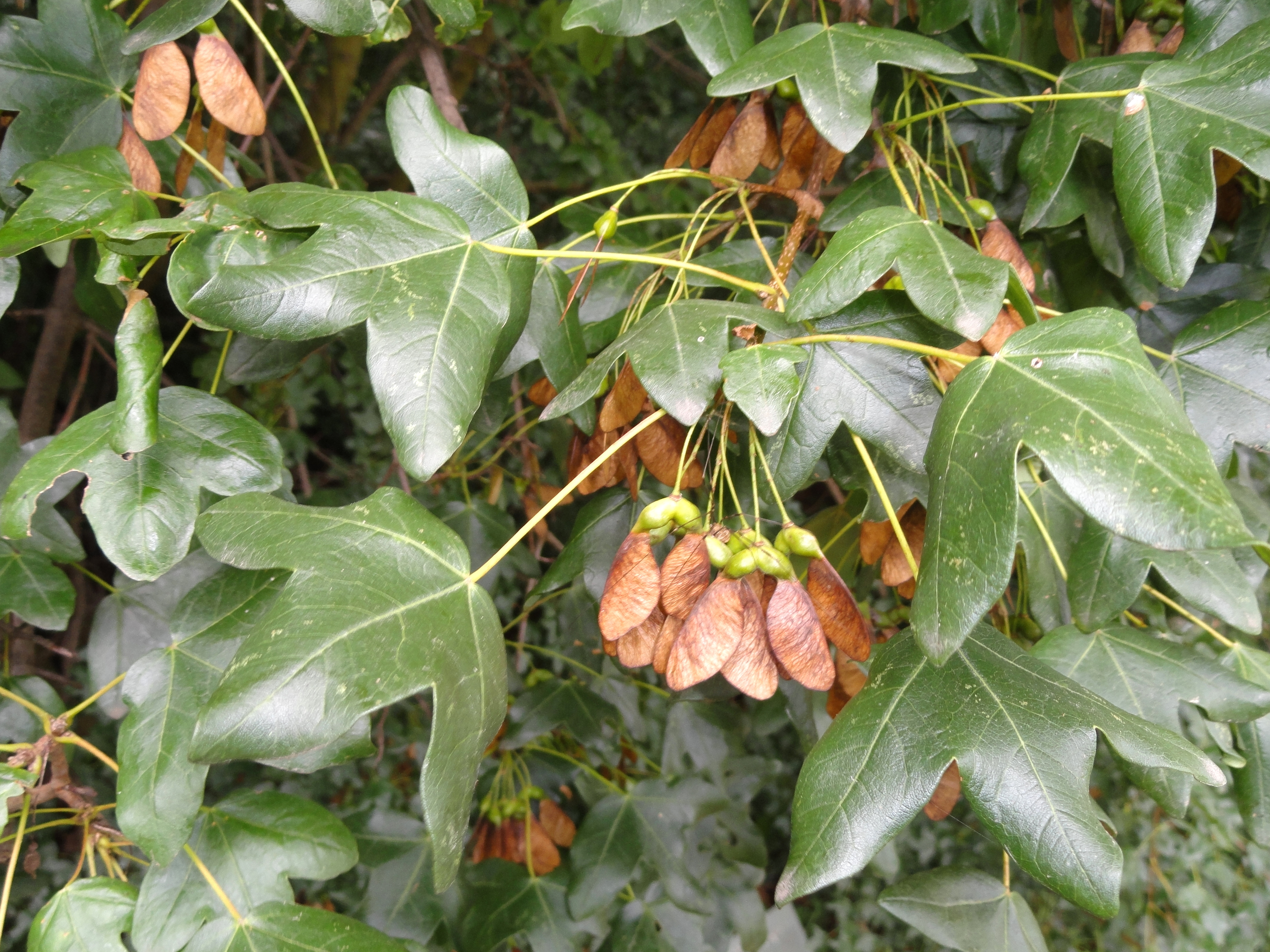 Botanical specimen in the Palmengarten, Frankfurt am Main, Germany.